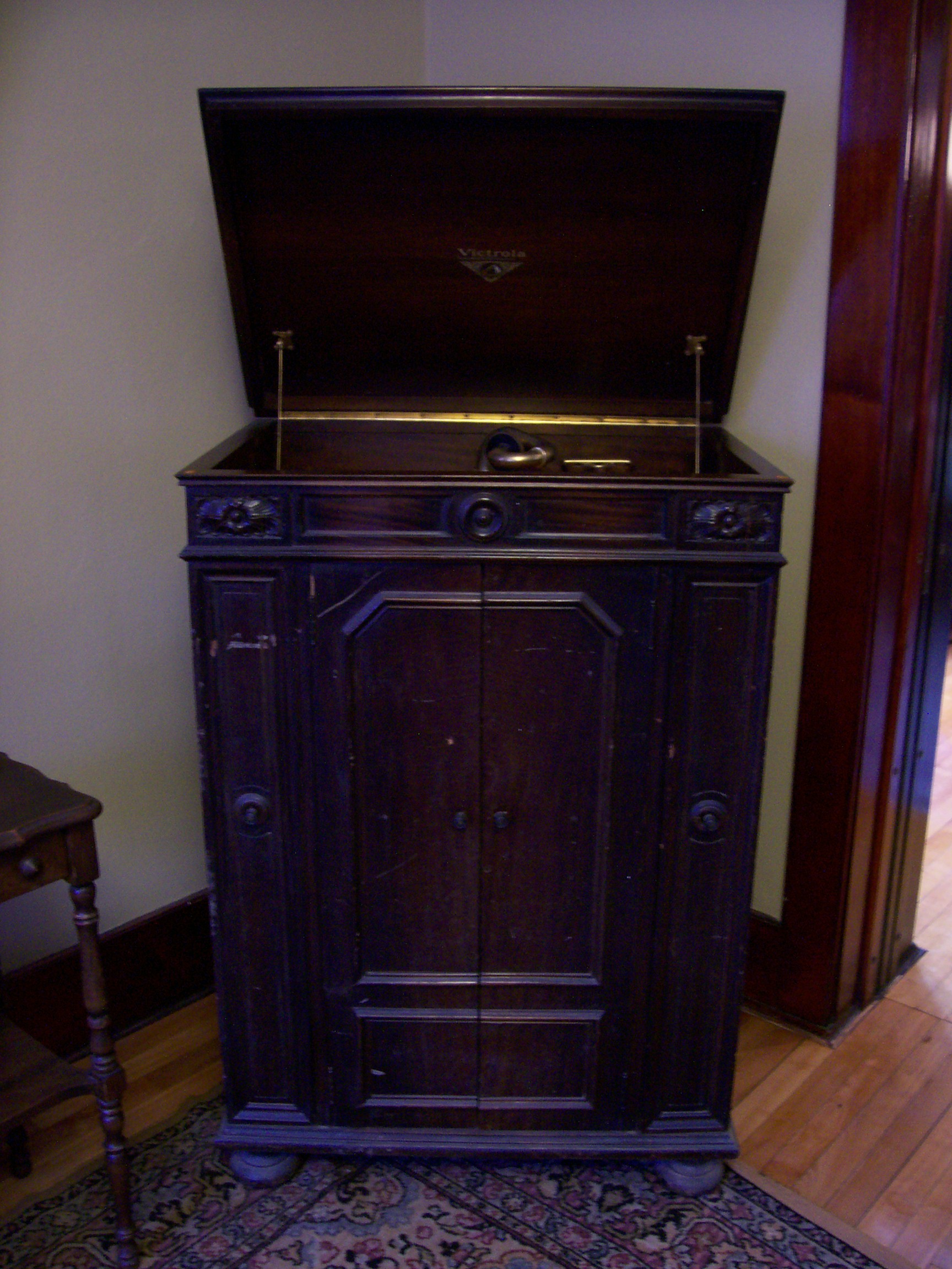 An elegant Victor Orthophonic Victrola, "Credenza" model, taken at the William D. Hoard Historic Museum in Fort Atkinson, Wisconsin, USA.